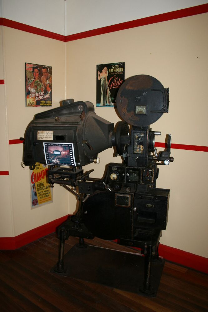 Majestic Picture Theatre (2007), Old Simplex projector used from 1930 to 1984